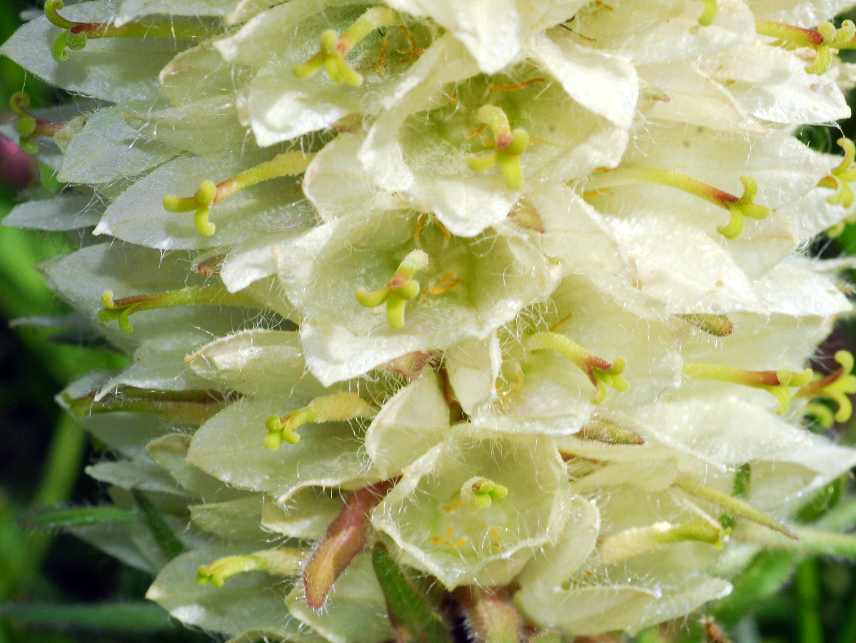 Flowers of Campanula thyrsoides, at the Giardino Botanico Alpino Chanousia